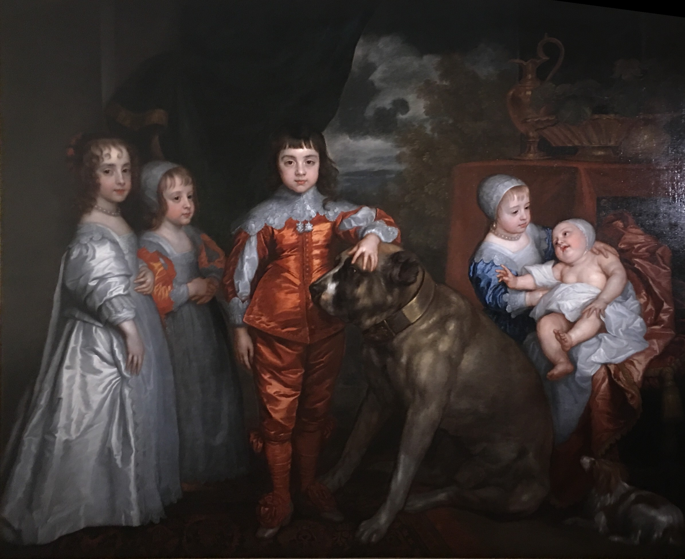 Oil on Canvass formerly belonging to The Duke of Leeds for 245+ years. Sitters Princess Mary, Prince James II & Prince Charles II, Princesses Elizabeth and Anne. Possibly one of the two pictures returned to the Royal Family in August of 1661 and recorded by Col. Hawley.